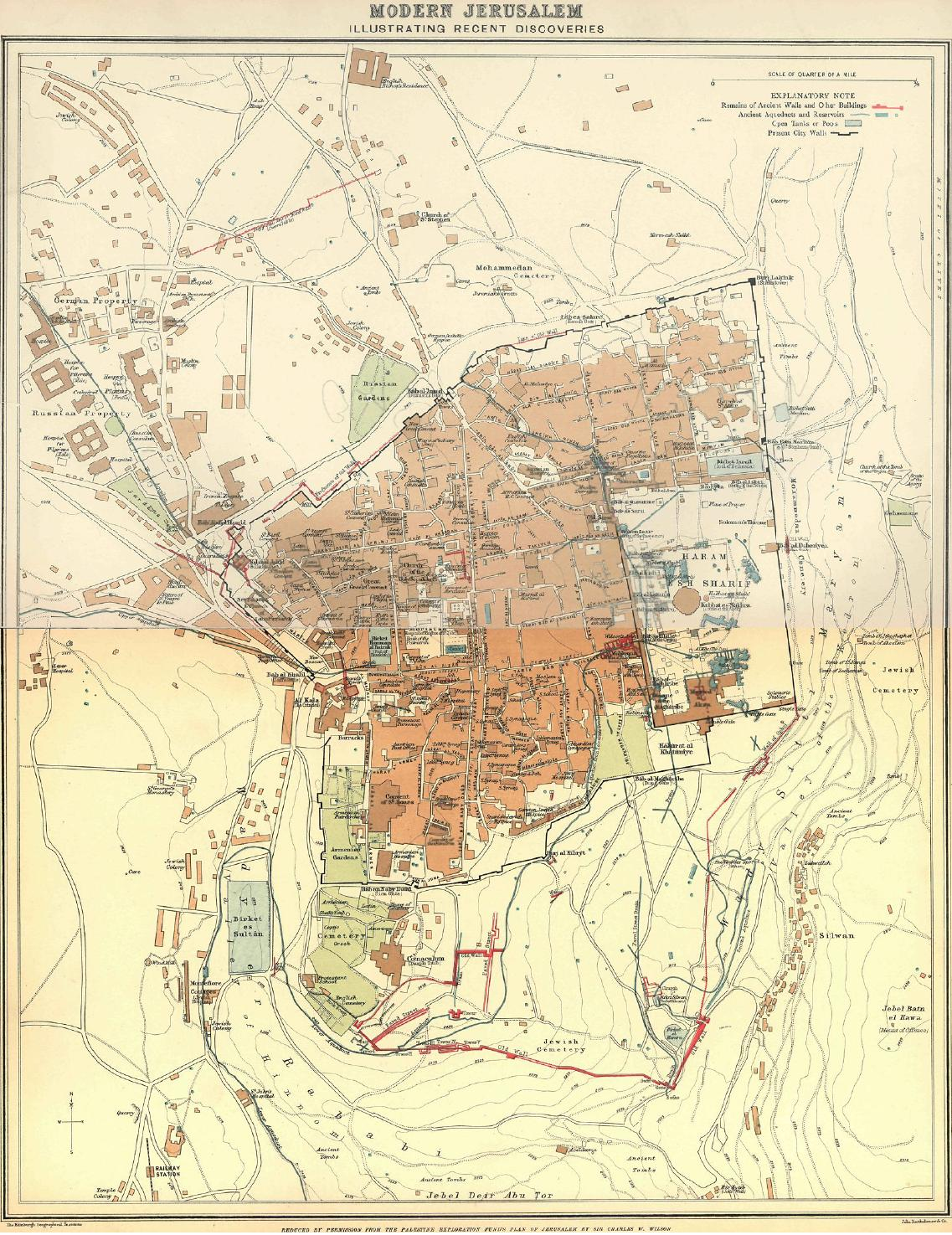 Atlas of the Historical Geography of the Holy Land by George Adam Smith in 1915